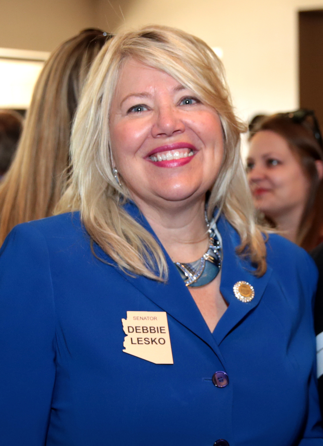 Debbie Lesko speaking at an event in Phoenix, Arizona.